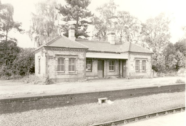 Wrexham Exchange - disused offices Although immediately adjacent to Wrexham General, the main station in the town, in 1977 Wrexham Exchange was signposted separately. The platform in use had no buildings at all, but that in the photograph remained on the disused platform.